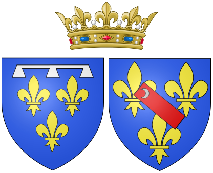 Ams of Marie de Bourbon, Duchess of Montpensier (in her own right) as Duchess of Orléans